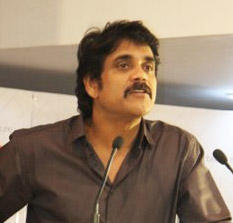 Akkineni Nagarjuna at TeachAIDS India Launch 2010 Photo credit: TeachAIDS (